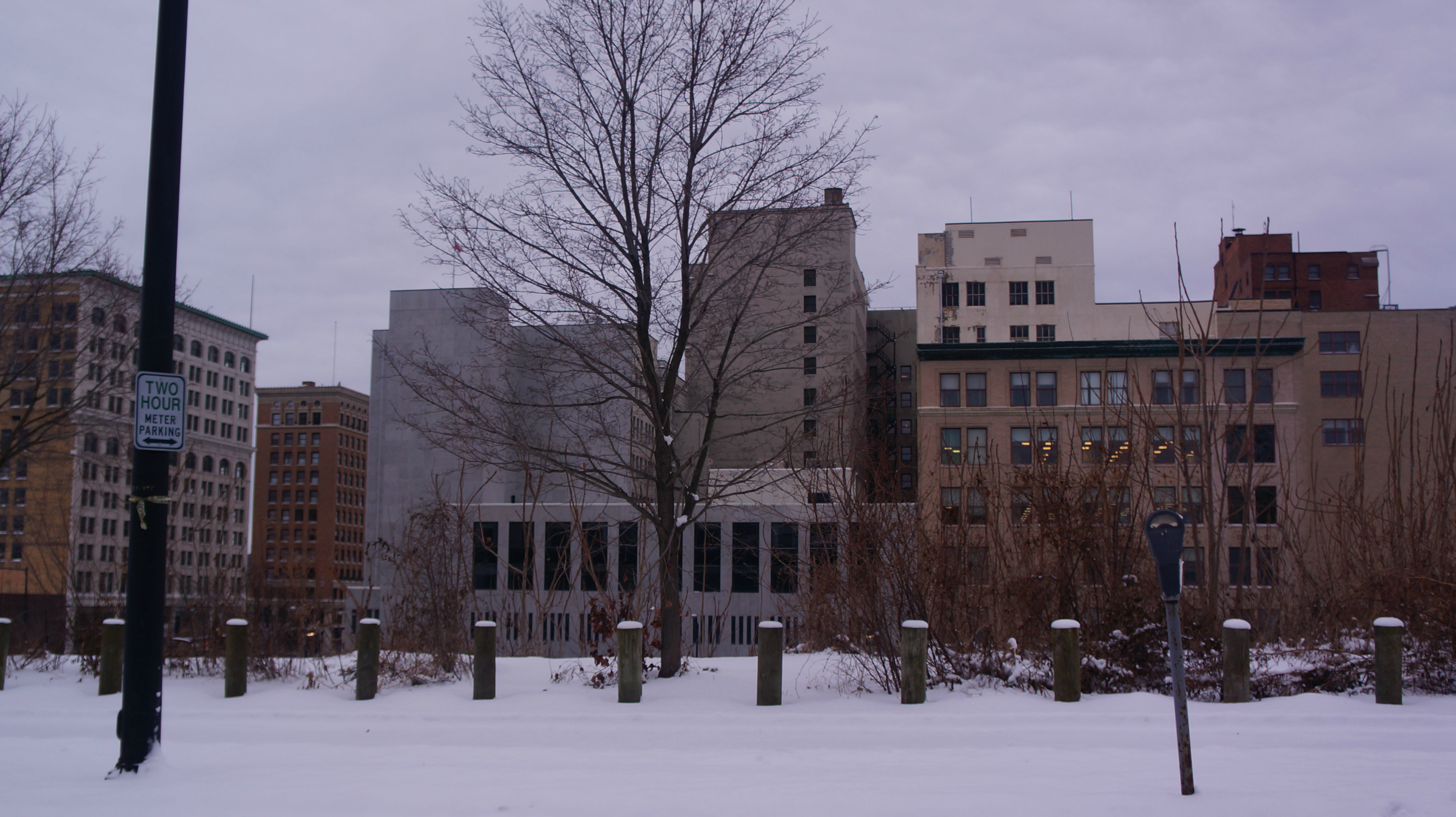 A picture of the skyline of Downtown Youngstown.